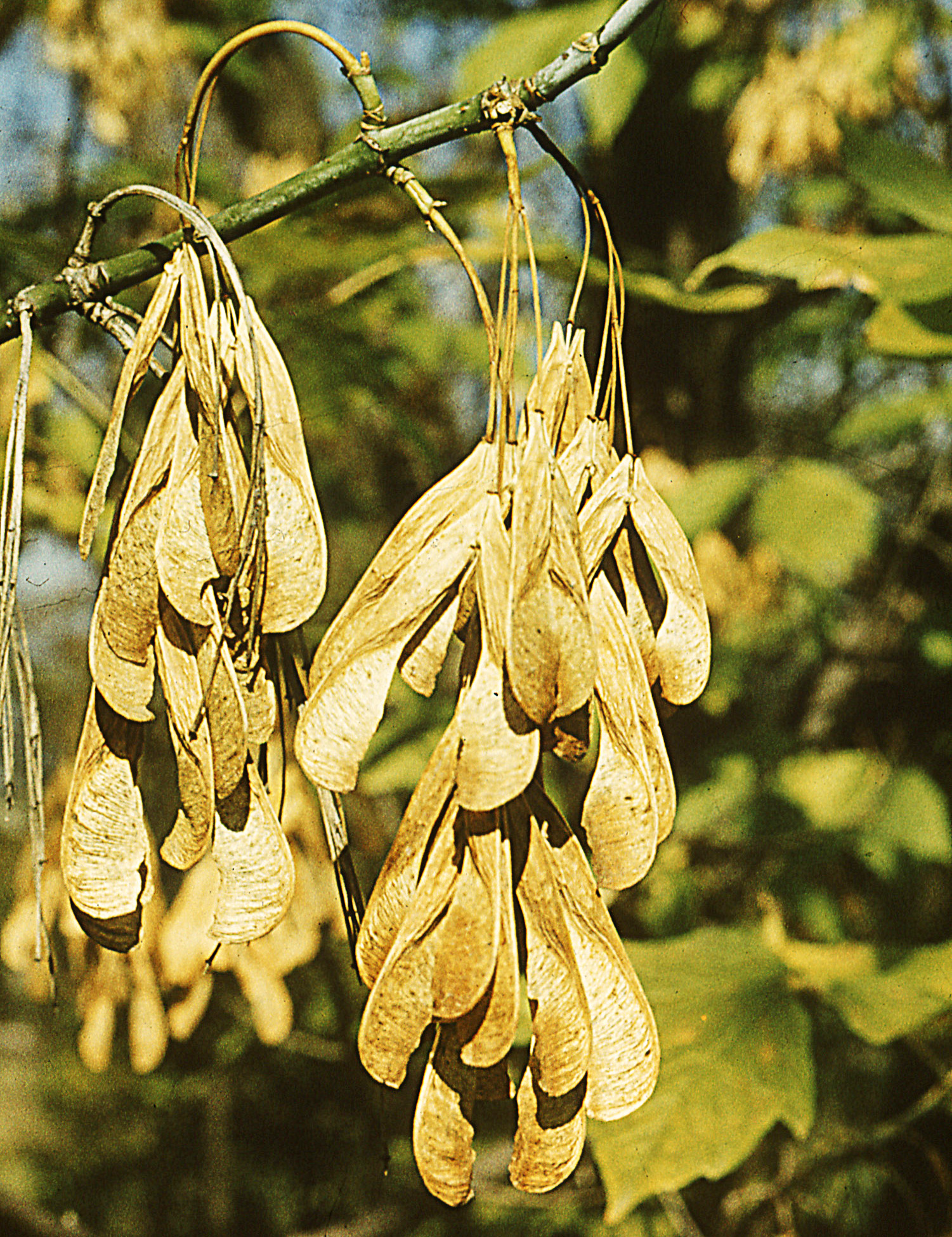 Acer negundo samaras